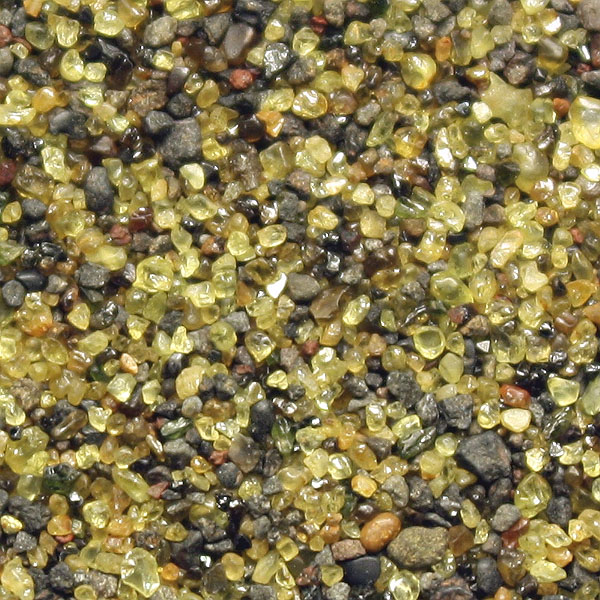 Heavy mineral sand from Hawaii (Big Island). Sand is composed of olivine crystals and basalt fragments.